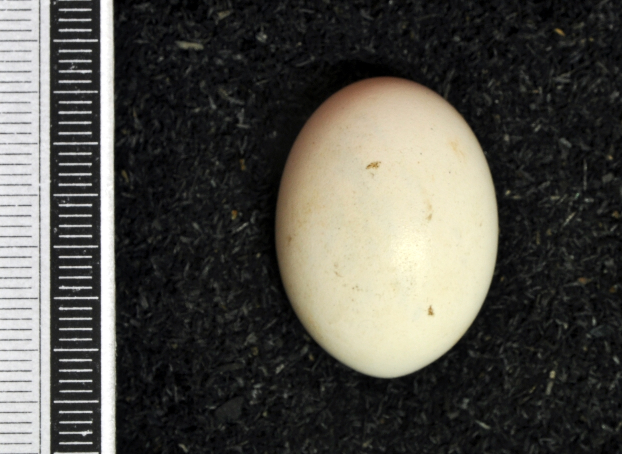 Ring-necked dove Streptopelia capicola , egg, Coll. Museum Wiesbaden